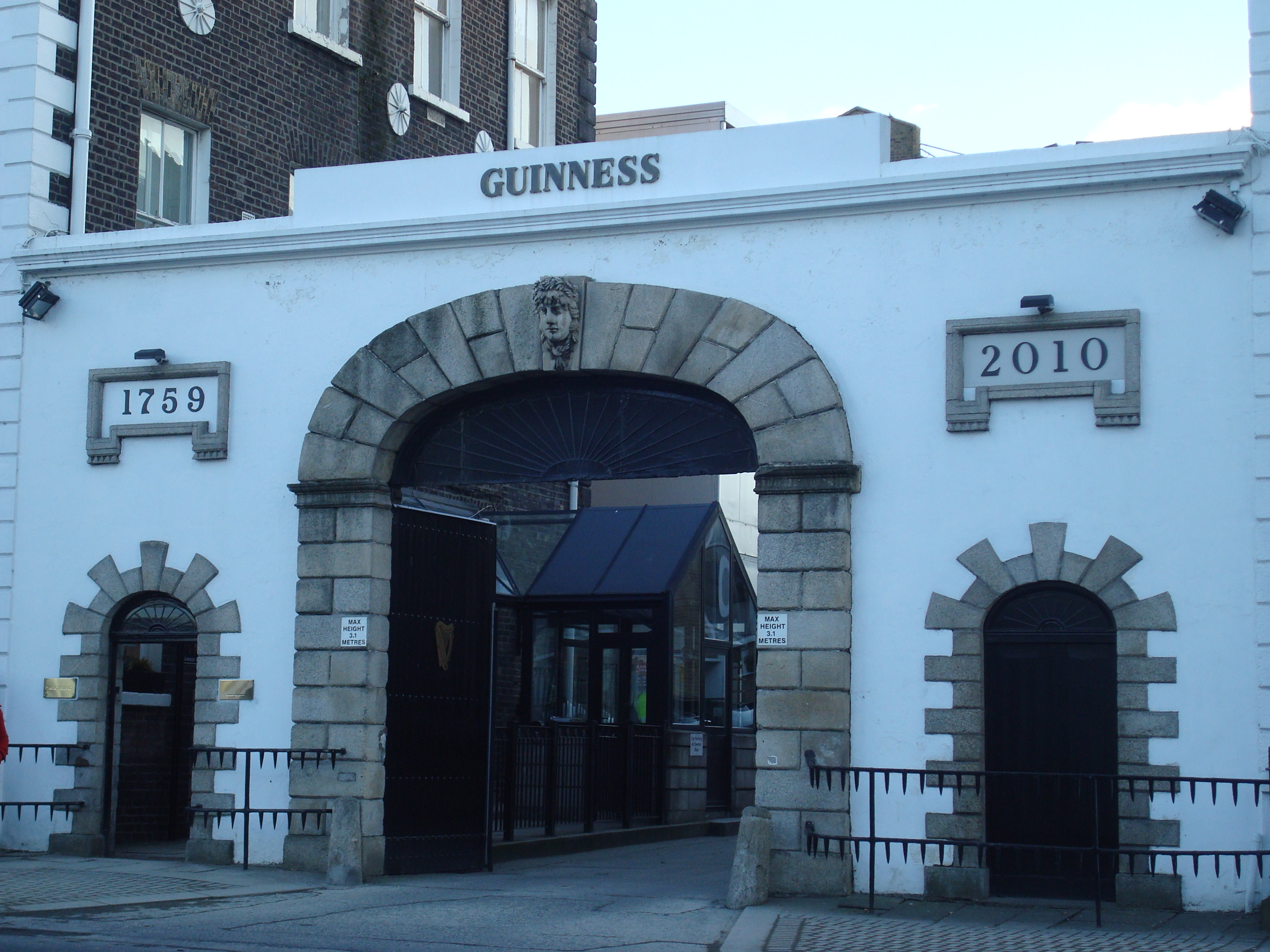 St. James' Gate, the entrance to the Guinness Brewery on James Street.